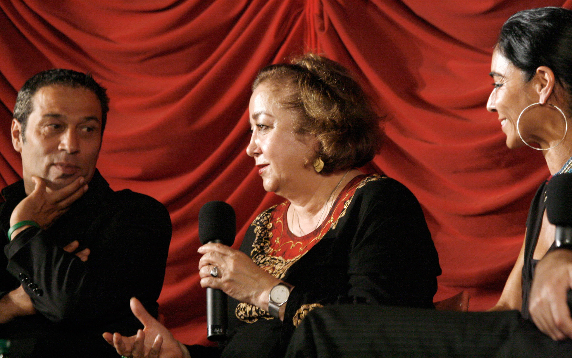 Shahrnush Parsipur, Shirin Neshat and Shoja Azari talking about Zanan bedun-e mardan (Women without men) at the Gartenbaukino in Vienna.